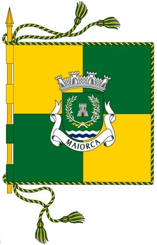 Maiorca Bandeira